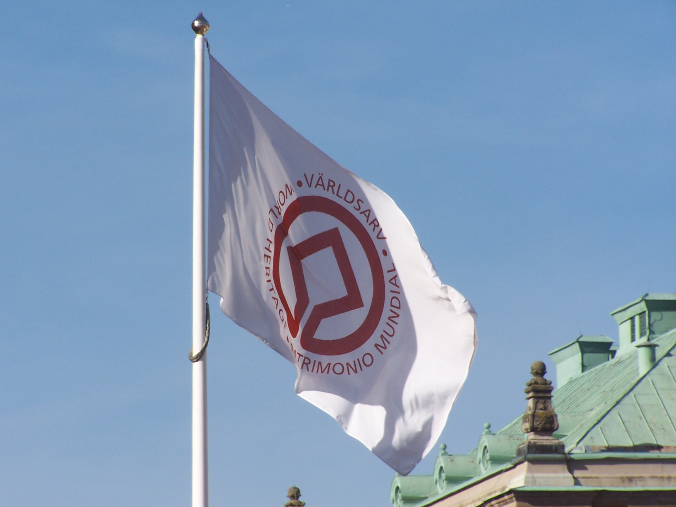 World Heritage flag, Stortorget, Karlskrona